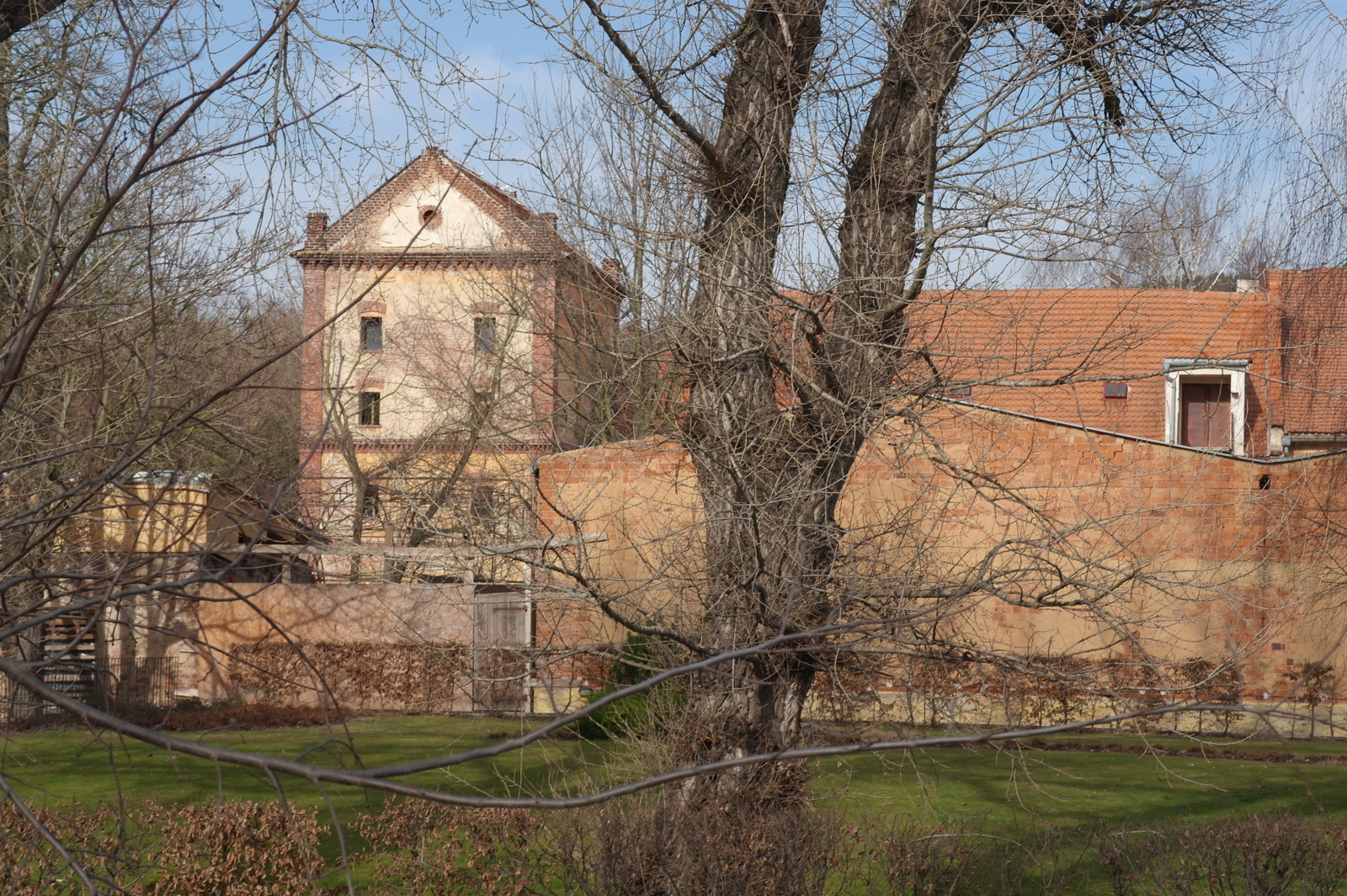 Buildings U trojského zámku str. 4/1, Troja. View from the south.